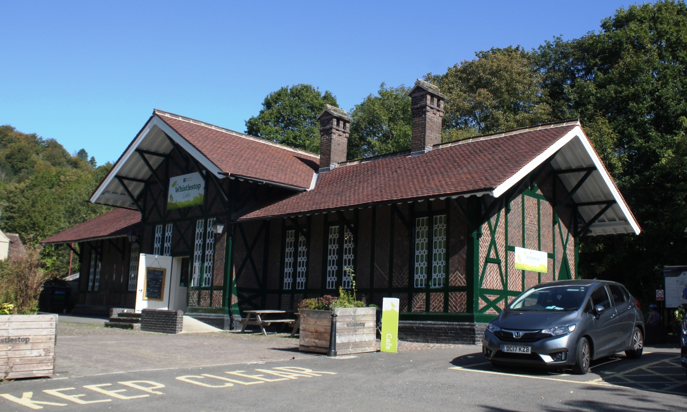 The station at Matlock Bath was built in a chalet style with herring bone brick infill to timber framing. The main building is now used as a café by the local wildlife trust.